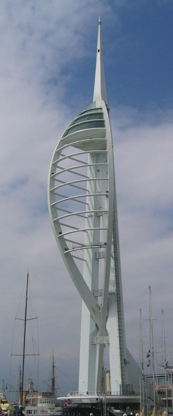 The Spinnaker Tower in Portsmouth, UK, as seen from the Gunwharf Quays waterfront. Almost completed, photo taken 2005-06-09.